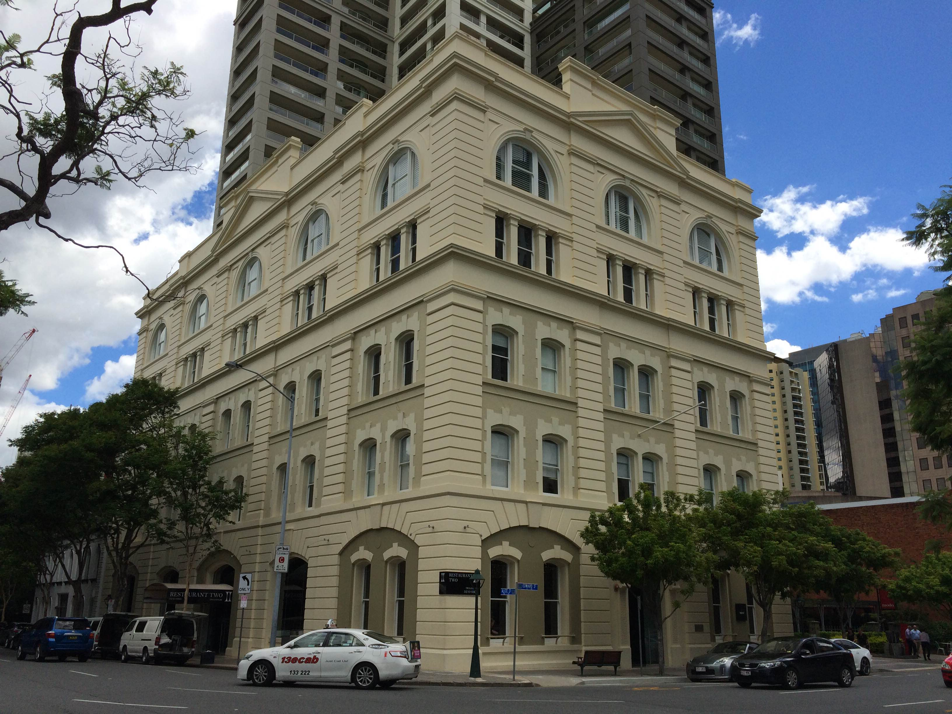 Old Mineral House, 2015 - corner view